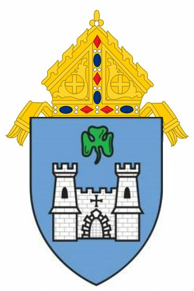 Coat of Arms Diocese of Fort Worth, TX